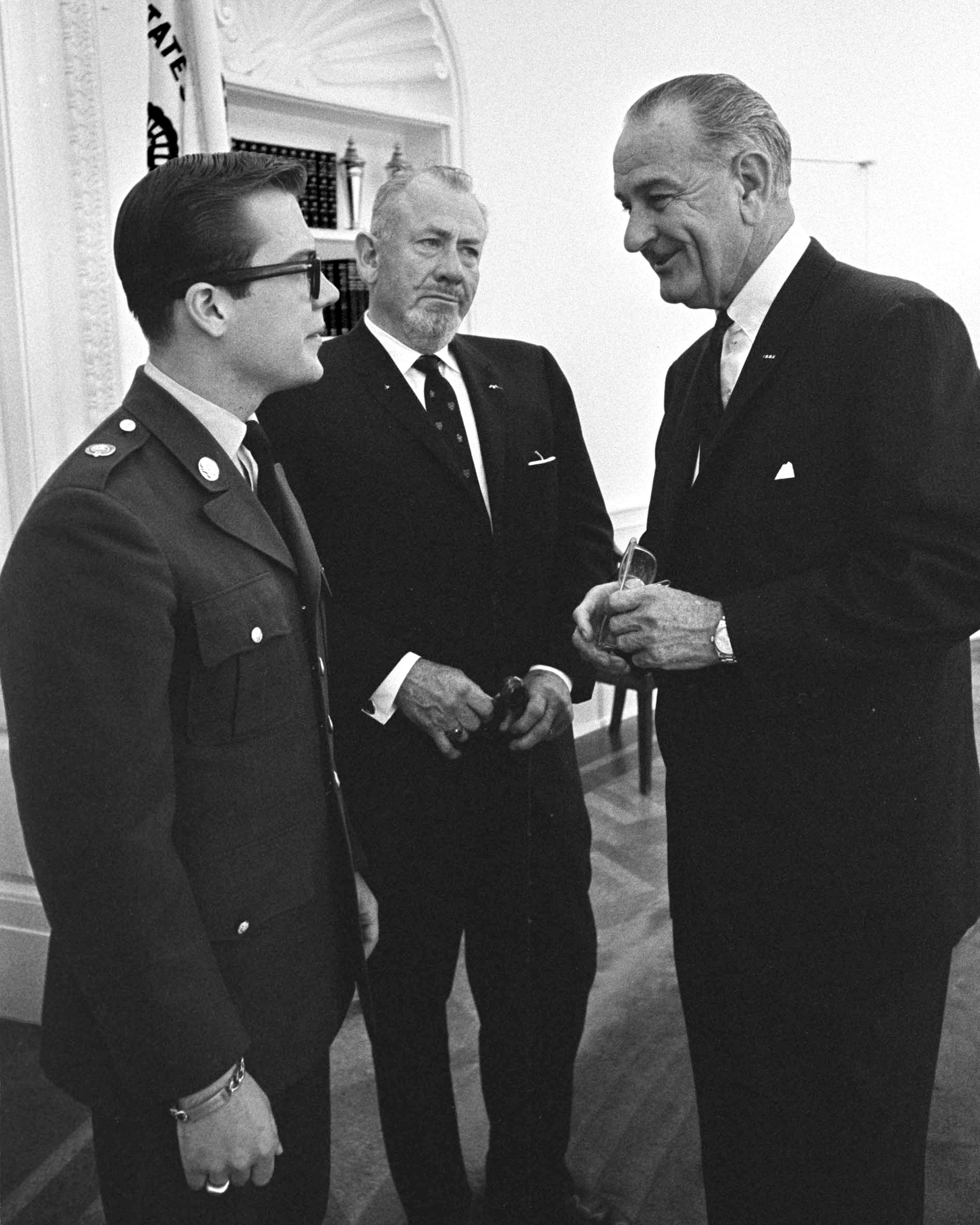 John Steinbeck and son John visit LBJ at the oval office in the White House. To the left is 19 year-old John Steinbeck, IV with his father, John Steinbeck, III. The senior Steinbeck, a friend and sometime speech-writer for LBJ (they had first met in 1963), has written the president to ask on his son's behalf that he would be posted in Vietnam. The 4-minute meeting takes place on Monday, May 16, 1966, shortly after the younger John has finished bootcamp, and a few weeks before his departure for Vietnam.[1] The visit is to say thank you in person, and to give the younger John the chance to shake the president's hand. This image has been altered from its source. It has been adjusted for brightness, contrast and cropping by Wikimedia Commons member Amadscientist.